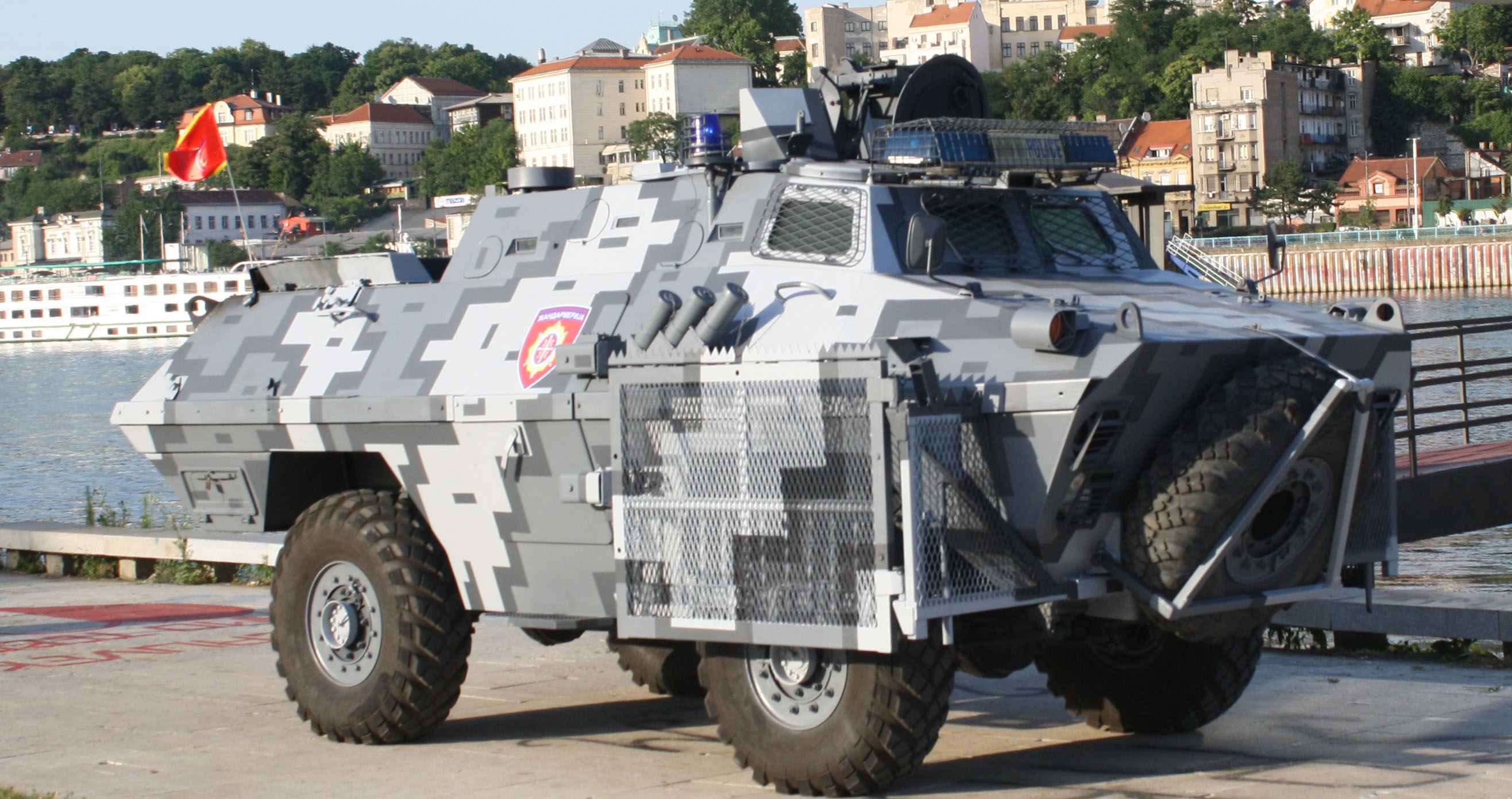 BOV-M armored personal carrier of Serbian Gendarmerie.